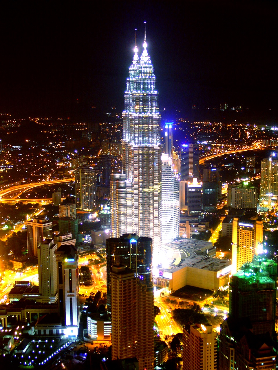 This is a photo of the Petronas Towers at night from the public observation level of the Menara Kuala Lumpur, taken by Lee Sidebottom [U.K.] 7/5/2006.